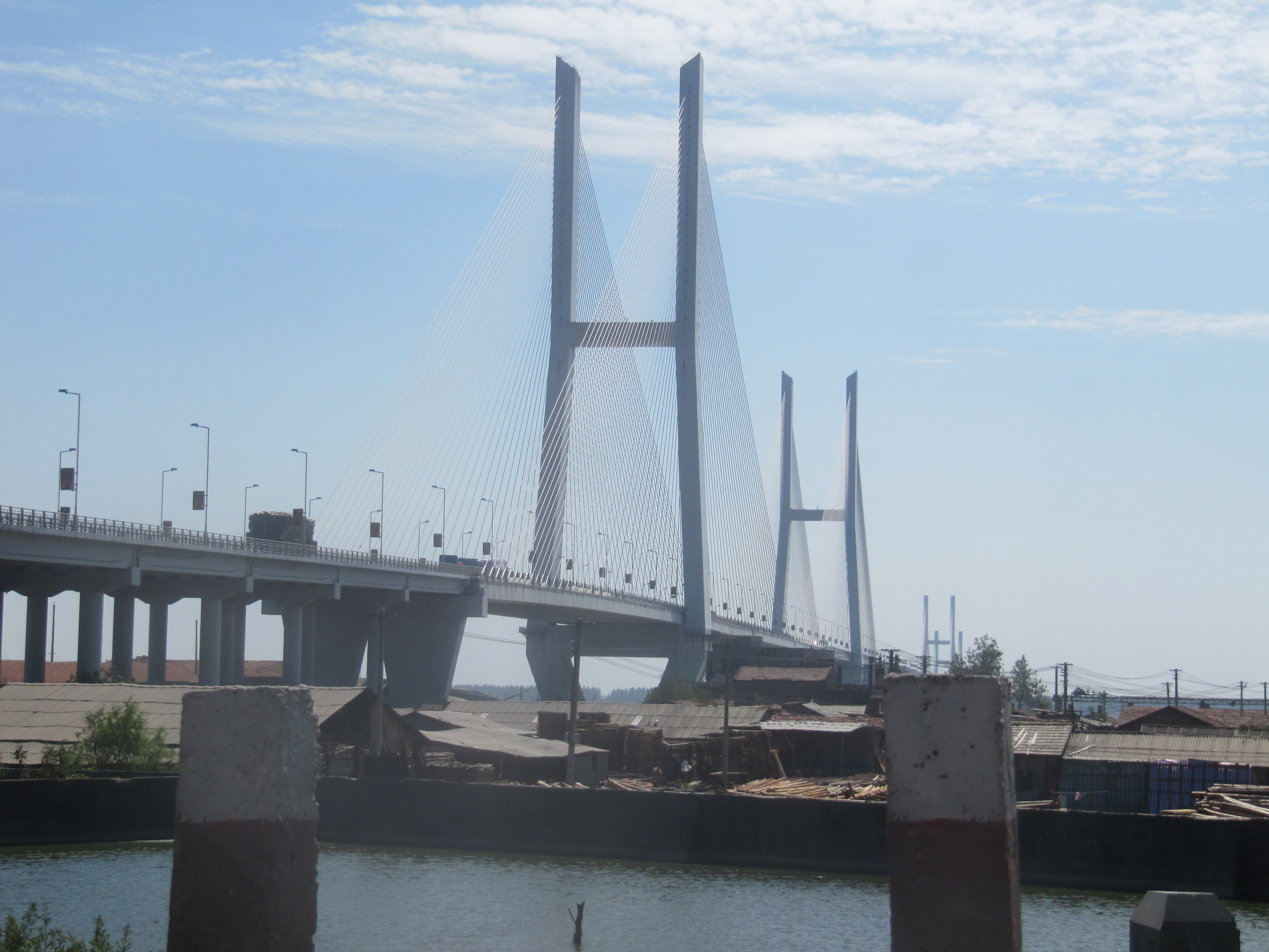 Jingzhou Changjiang Bridge